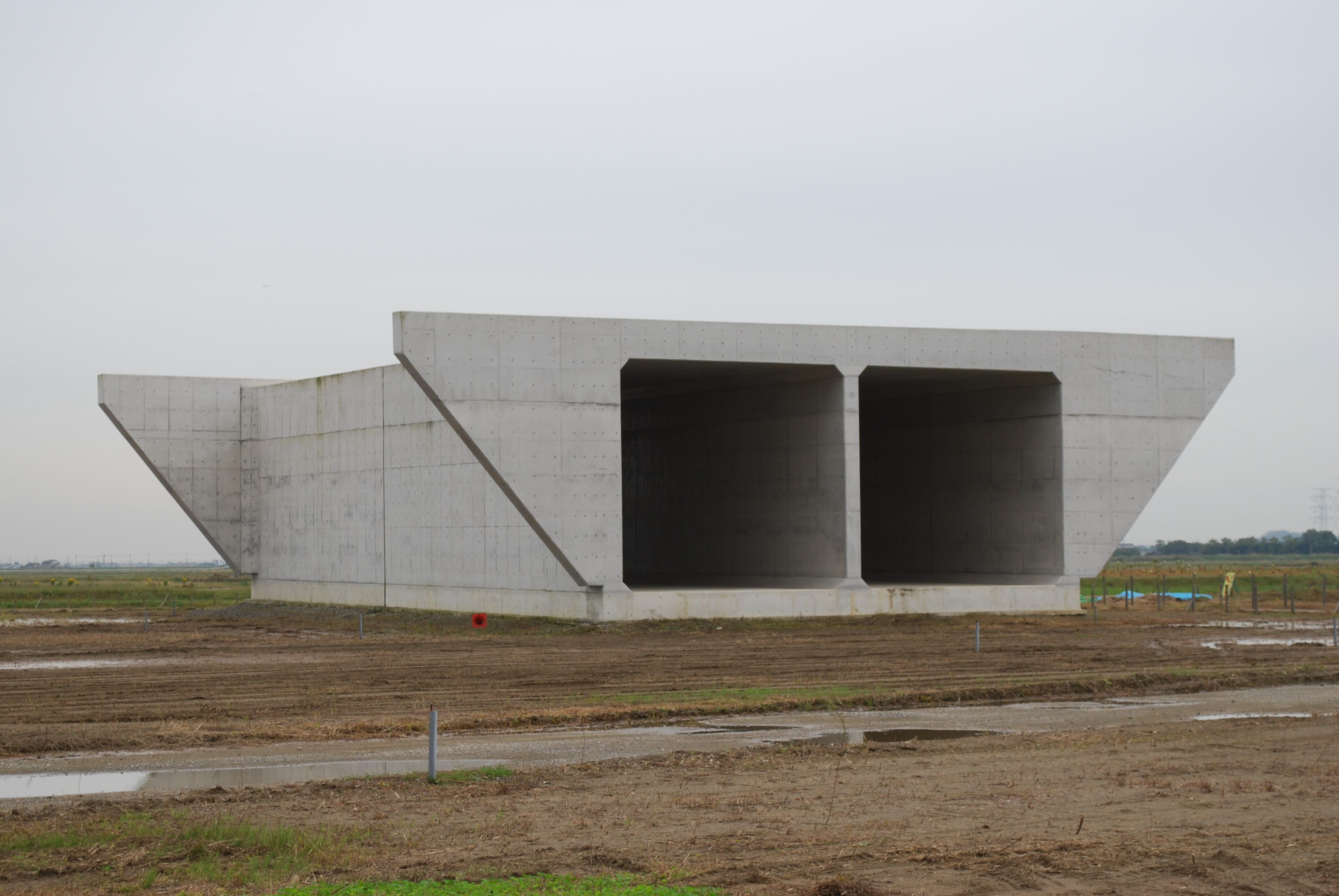 Box Calvert of the highway,ken-o-expressway,inashiki-city,japan